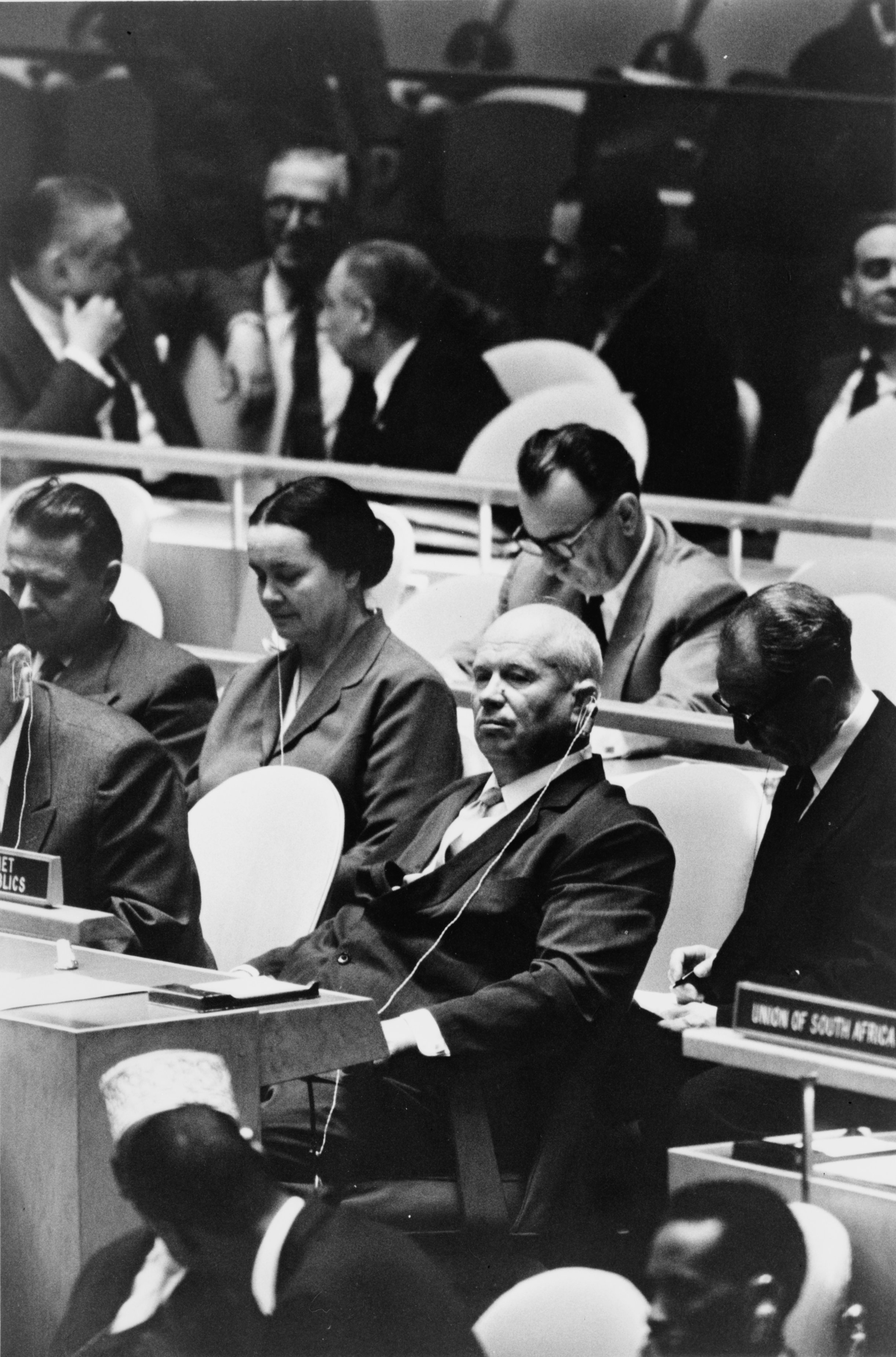 Nikita Khrushchev, leader of the Union of Soviet Socialist Republics, at a meeting of the United Nations General Assembly, New York, New York